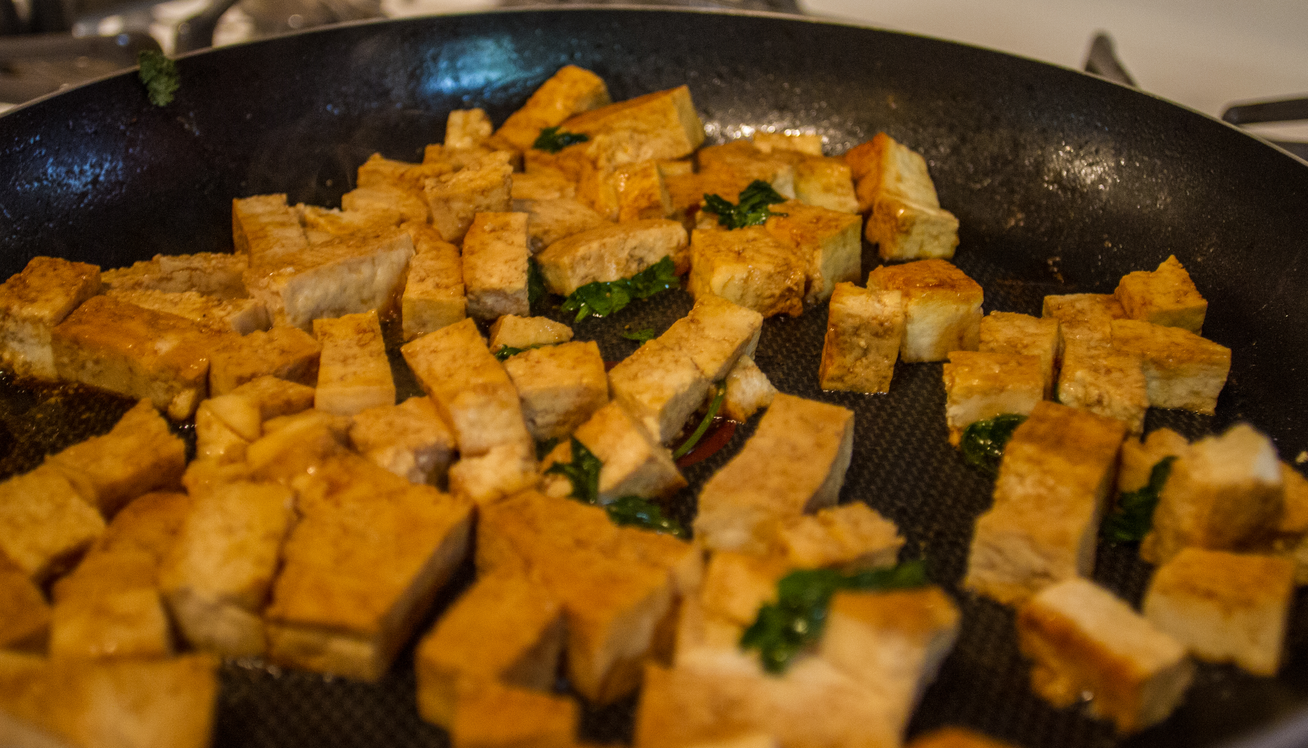 Cooking Tofu